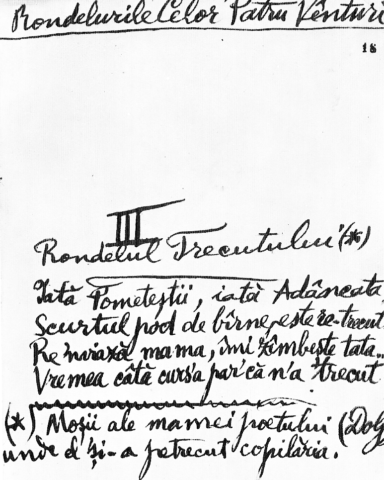 Facsimile of Alexandru Macedonski's manuscript version of his Rondelul trecutului ("The Rondel of the Past"), a poem mentioning his family's estate. The page was intended as a template for a published version, and carries Macedonski's note to his own text, self-referential in the third person.